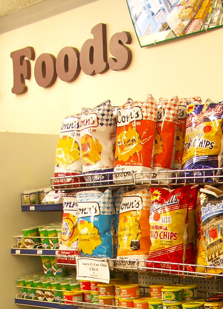 At the United Dairy Farmer's convenience store near my apartment in Columbus, Ohio. Where are the foods in this picture?